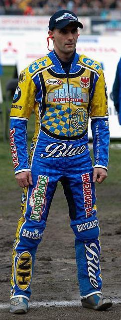 Tomasz Gollob during the presentation